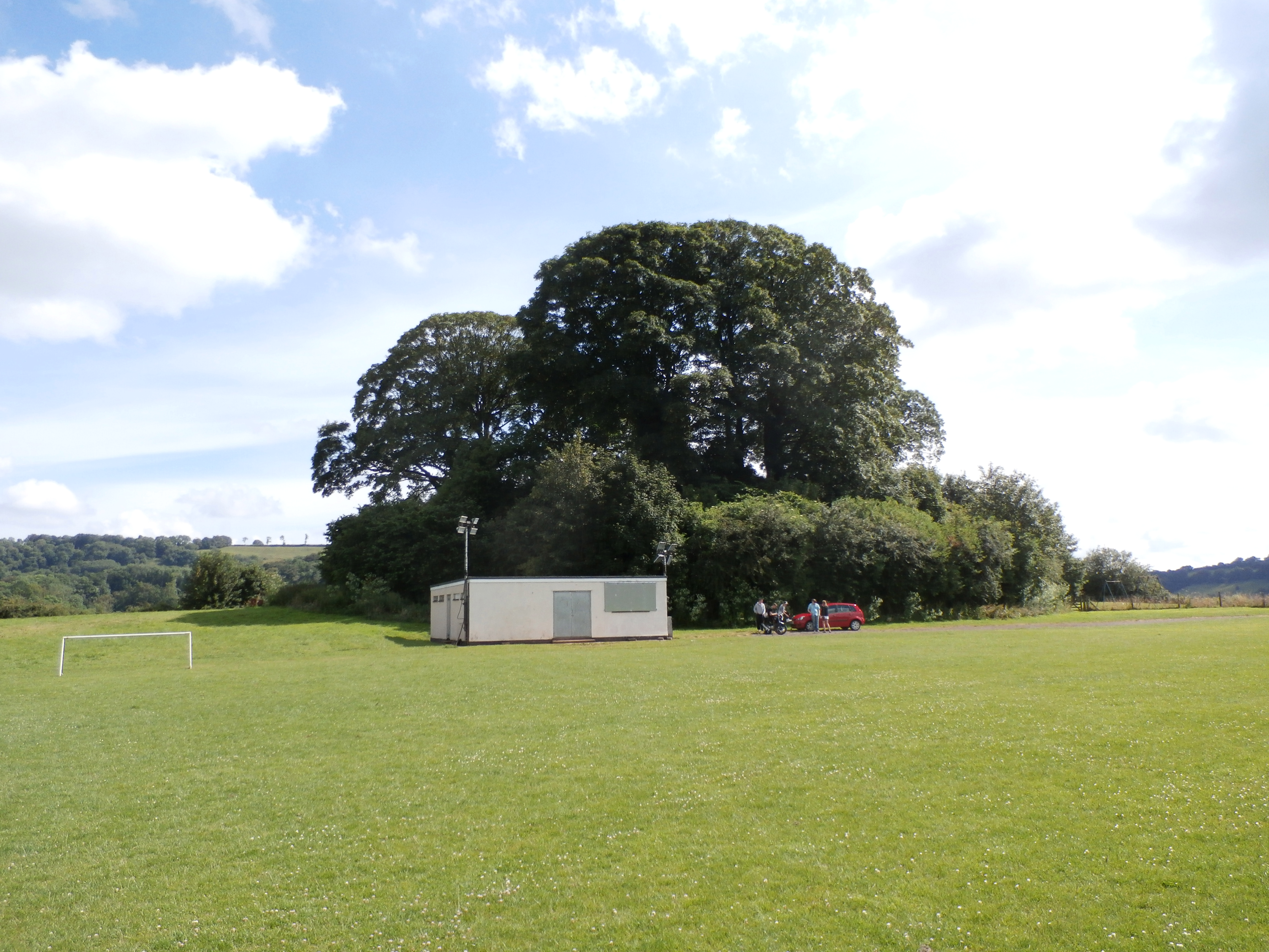 Motte of Bampton Castle, Devon, looking eastwards, with town of Bampton beyond to right